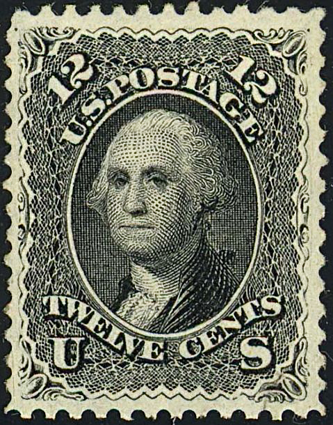 US stamp issue, 1861: George_Washington_1861_Issue-12c.jpg